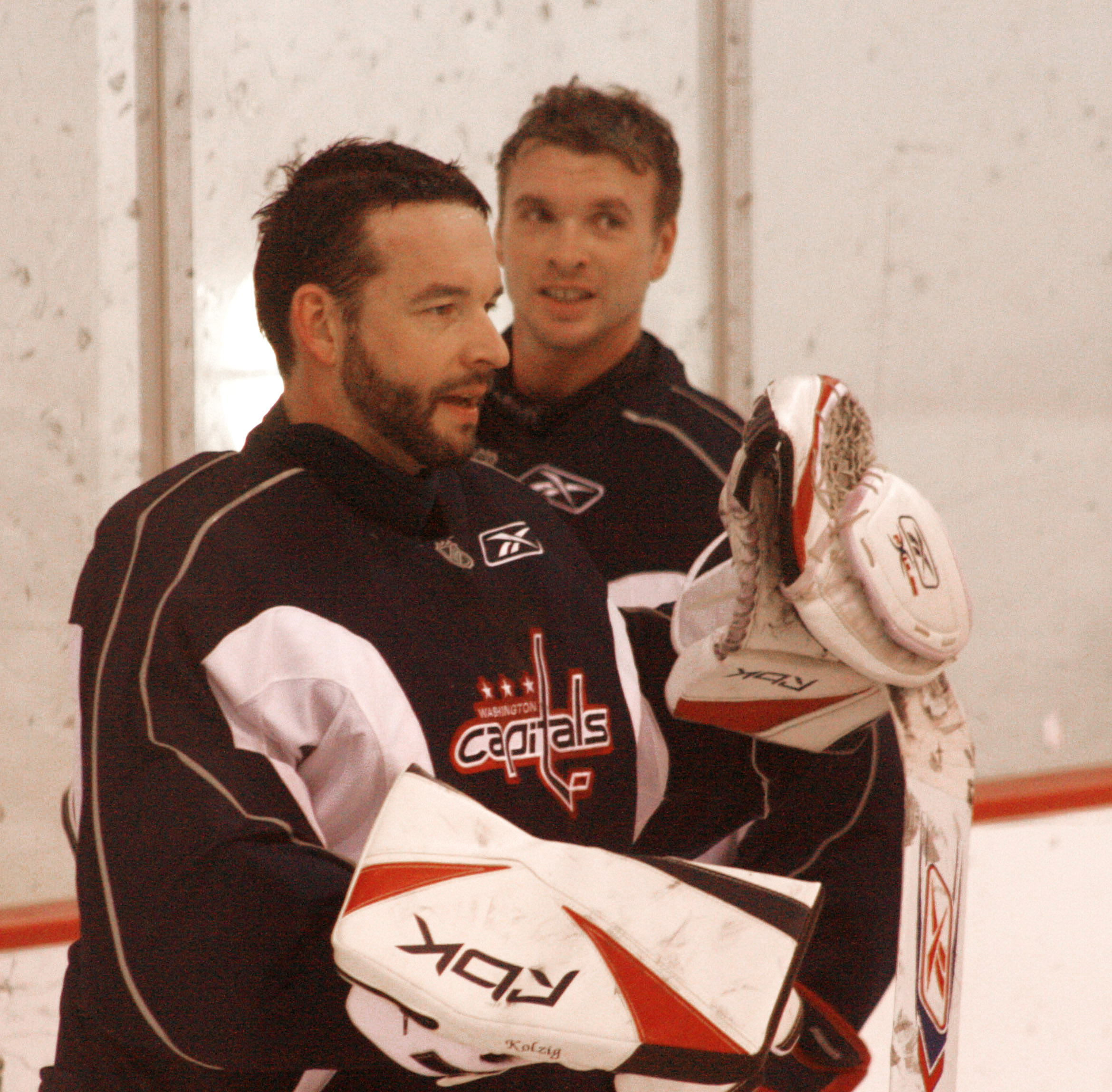 Olie Kolzig and Brent Johnson....2007-08 Washington Capitals practice session at the Kettler Ice Center in Arlington, Virginia.